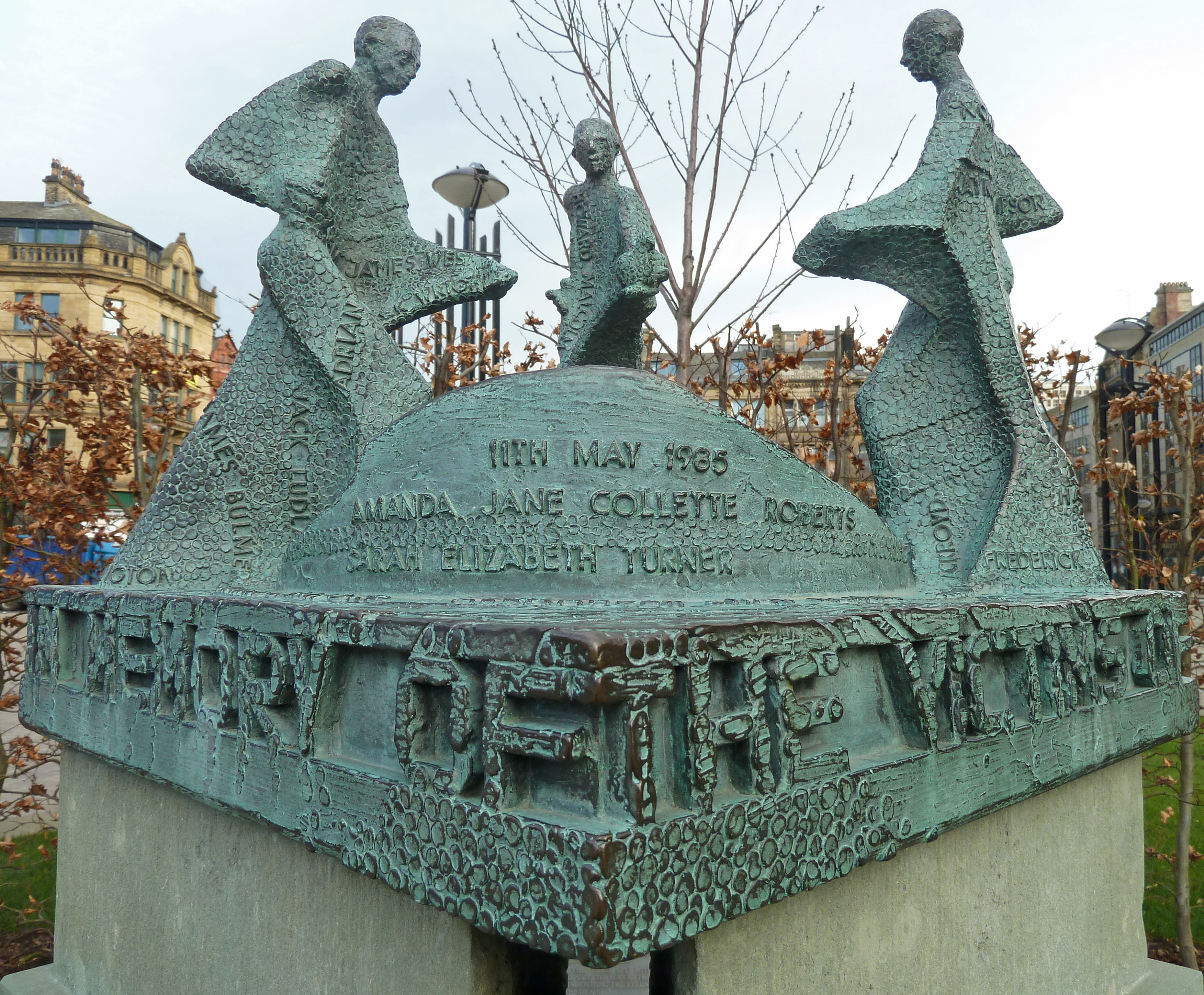 A memorial to the Valley Parade Fire in Bradford, West Yorkshire. Taken by Flickr user:Tim Green aka atouch on the afternoon of Saturday the 25th of February 2012)